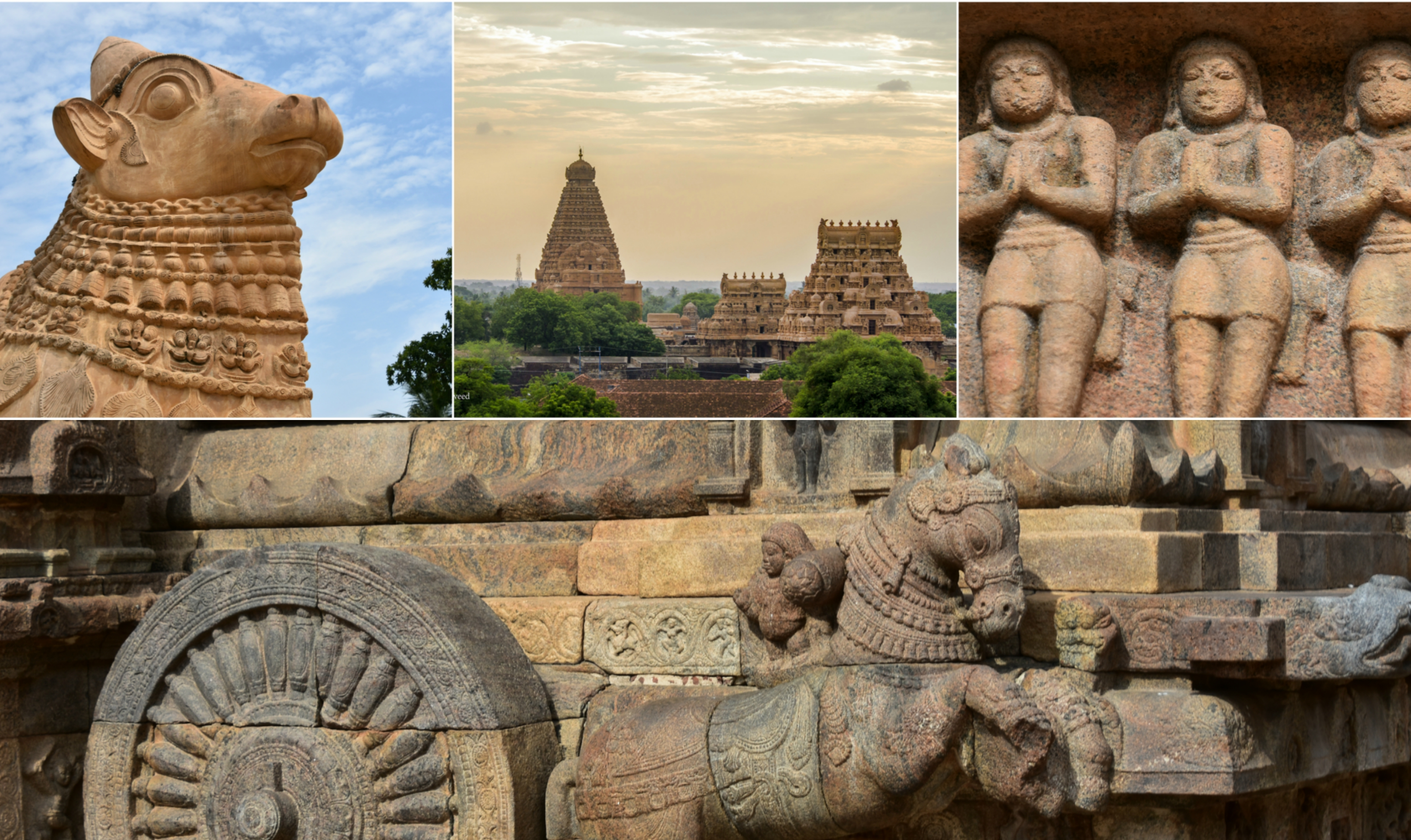 A derivative work on the following wikimedia files: 11th century Gangaikonda cholapuram Temple, dedicated to Shiva, built by the Chola king Rajendra I Tamil Nadu India (10).jpg The big temple.jpg 12th century Airavatesvara Temple at Darasuram, dedicated to Shiva, built by the Chola king Rajaraja II Tamil Nadu India (106).jpg 12th century Airavatesvara Temple at Darasuram, dedicated to Shiva, built by the Chola king Rajaraja II Tamil Nadu India (30).jpg